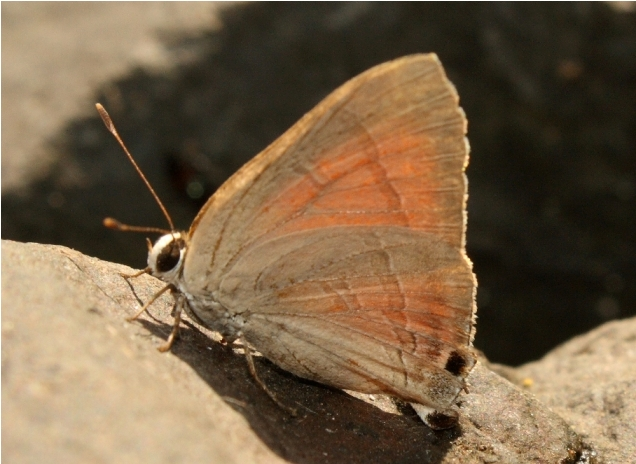 Indian Red Flash (Rapala iarbus). Thane, Maharashtra. March 2011 (2)